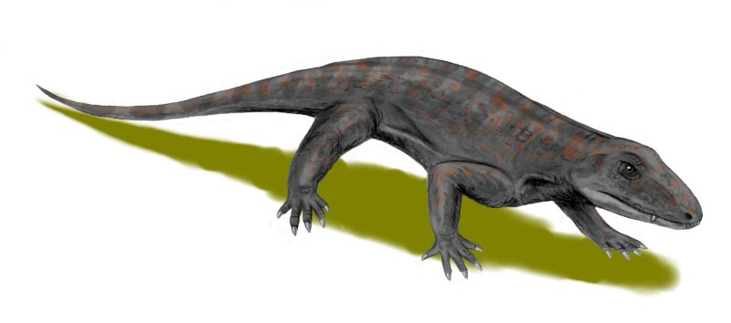 Varanops brevirostris, a pelycosaur from the Lower Permian of Texas, pencil drawing, digital coloring